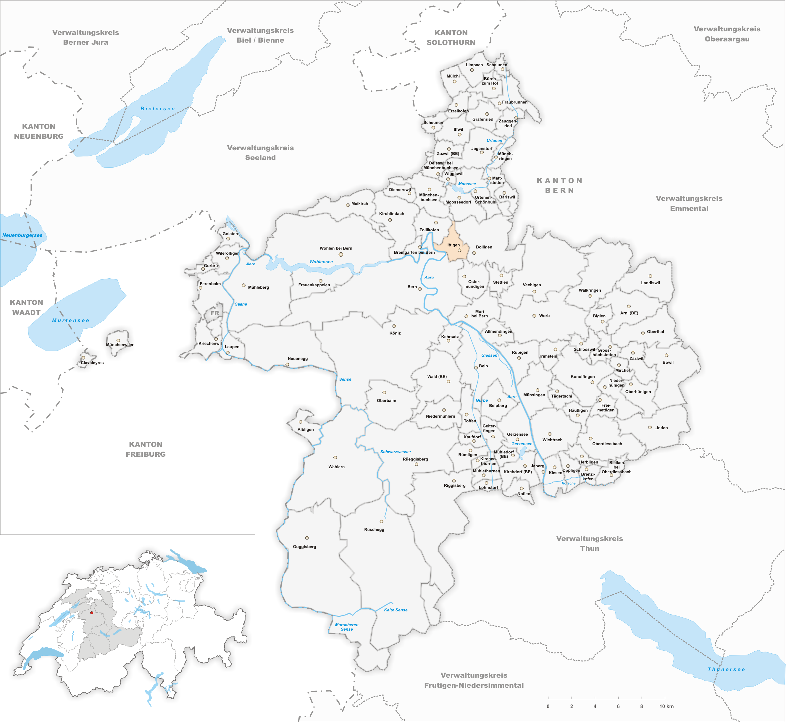 Municipality Ittigen